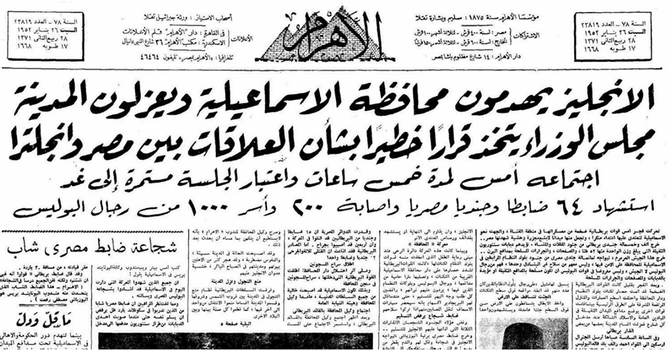 Al-ahram issue - 26 Jan 1952